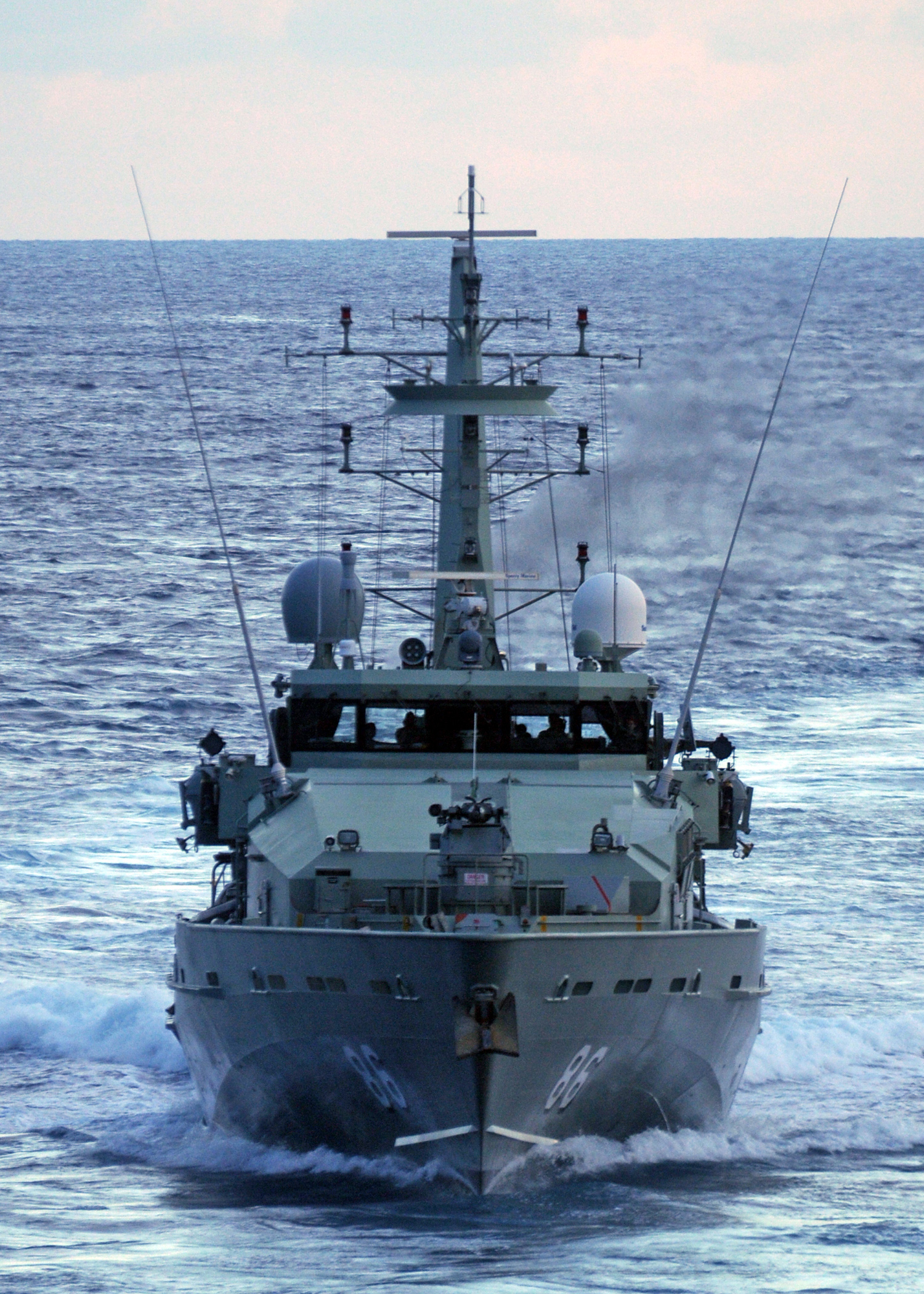 Bow view of HMAS Albany (ACPB 86) taken from USS Halsey (DDG 97) while the two ships were sailing in company through the Timor Sea